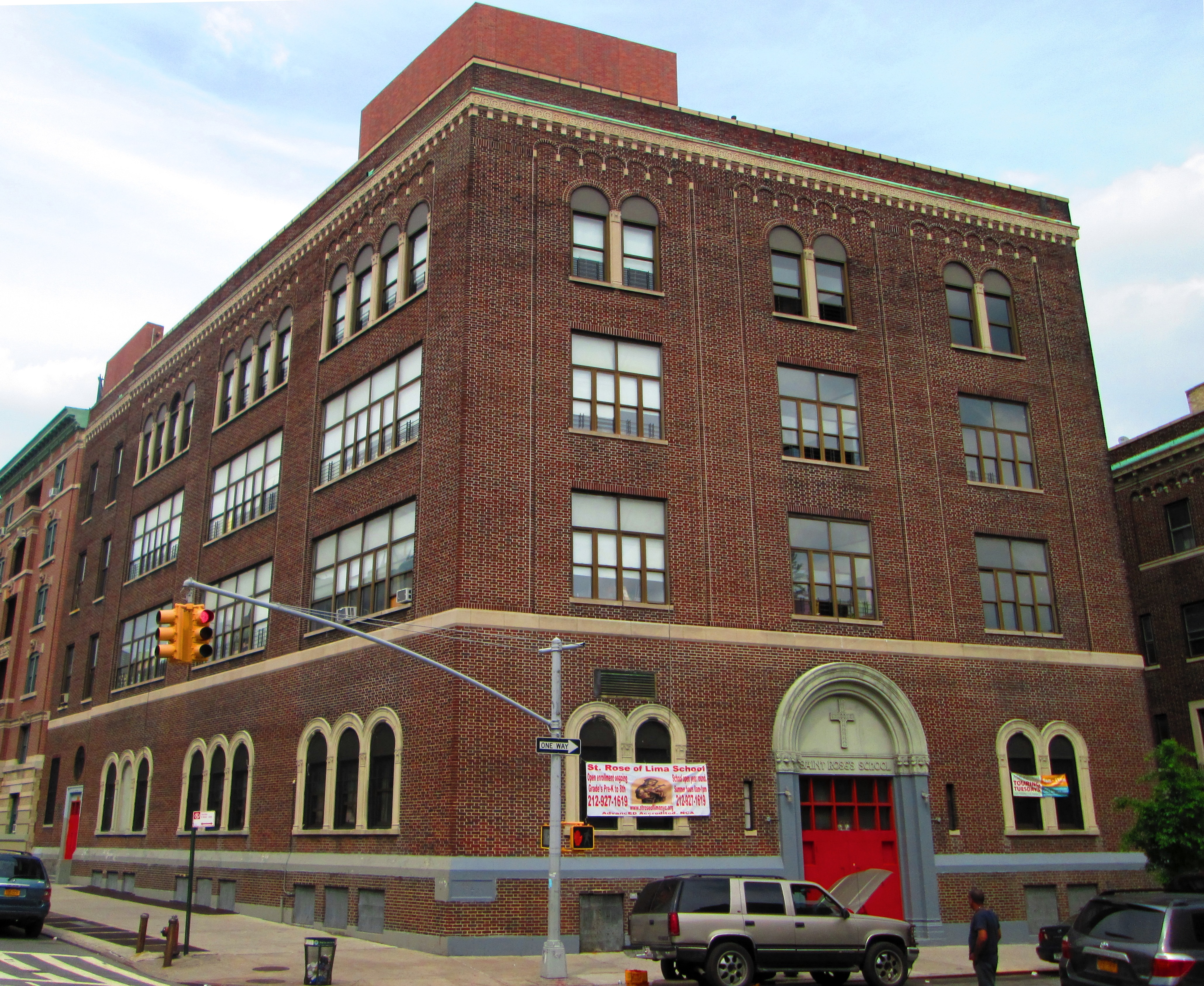 The Church of St. Rose of Lima is a Roman Catholic parish church in the Roman Catholic Archdiocese of New York, located at 510 West 165th Street between Audubon and Amsterdam Avenues in the Washingtom Heights neighborhood of Manhattan, New York City. The Romanesque Revival church was designed by Joseph H. McGuire and built in 1902-05. The rectory next door, also designed by McGuire, was built in 1903-1904. The parish school at 1086 St. Nicholas Avenue on the corner of West 164th Street was built in 1924-25 and was designed by Robert J. Reilly, as was the convent at 511 West 164th Street between St. Nicholas and Audubon Avenues, which is now the location of the Centro Altagracia de Fey y Justicia, a Roman Catholic agency dedicated to faith and social justice. The parish was founded in 1901.